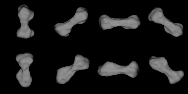 Dog bone shaped asteroid Kleopatra